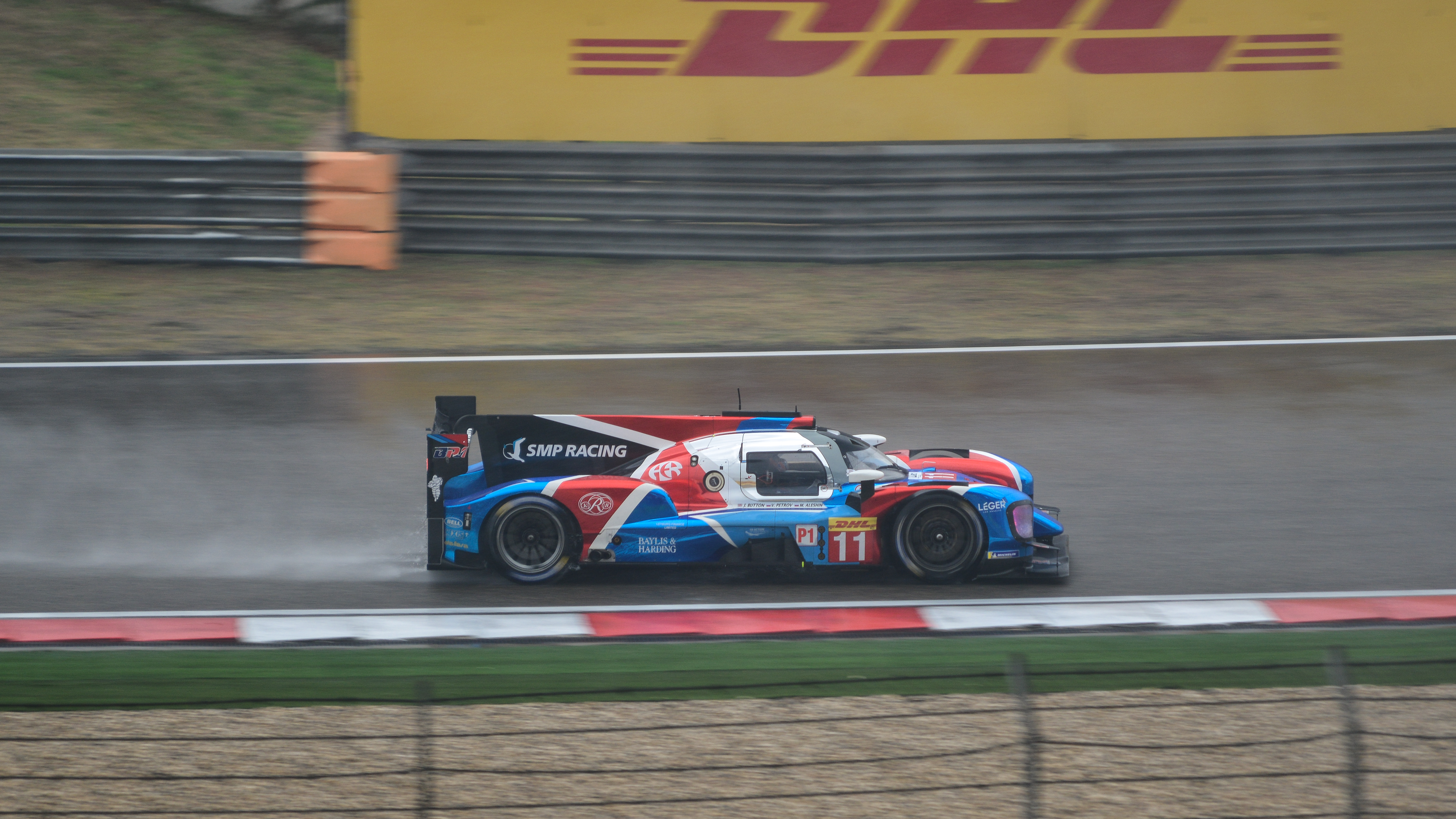 2018 6 Hours of Shanghai.